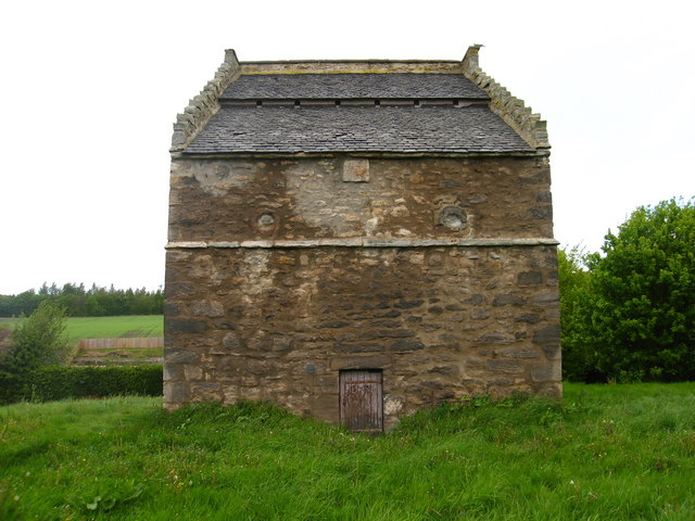 Wester Pencaitland Doocot. A large rectangular 17th Century lectern doocot that stands in the haugh 50 yds NW of Pencaitland school. 1136 nests for pigeons inside.